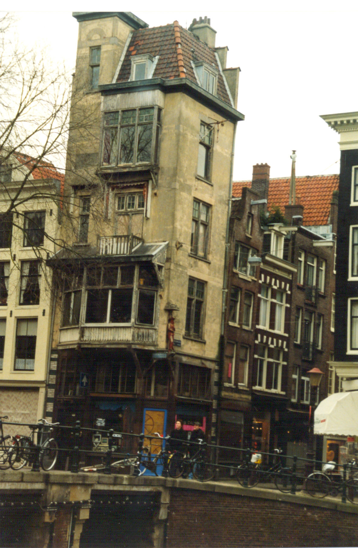 The photo shows the house on heerengracht around 1999. It was squatted that year, the basement was transformed into the cafe ASCII